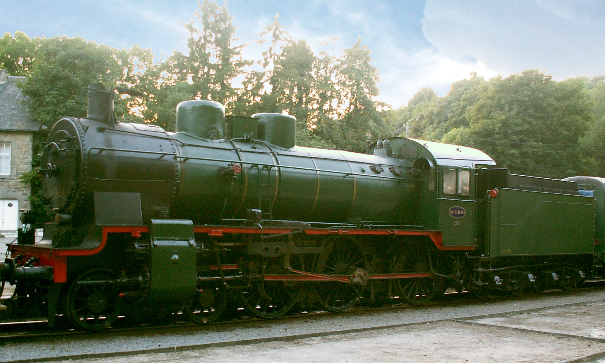 64.169 Steamer of the Belgian heritage Railway PFT (Patrimoine Ferroviaire et Touristique). This is in fact a former prussian P8 lok, used by the romanian railways after WW2. PFT has bought it in the early 2000. After being refitted and painted in belgian delivery at a romanian steam workshop (Belgium has also had ex-prussian P8 under the 64.xxx series), and after exepriencing many administrative problems, this lok has finally reached Belgium in may 2007. See [1]